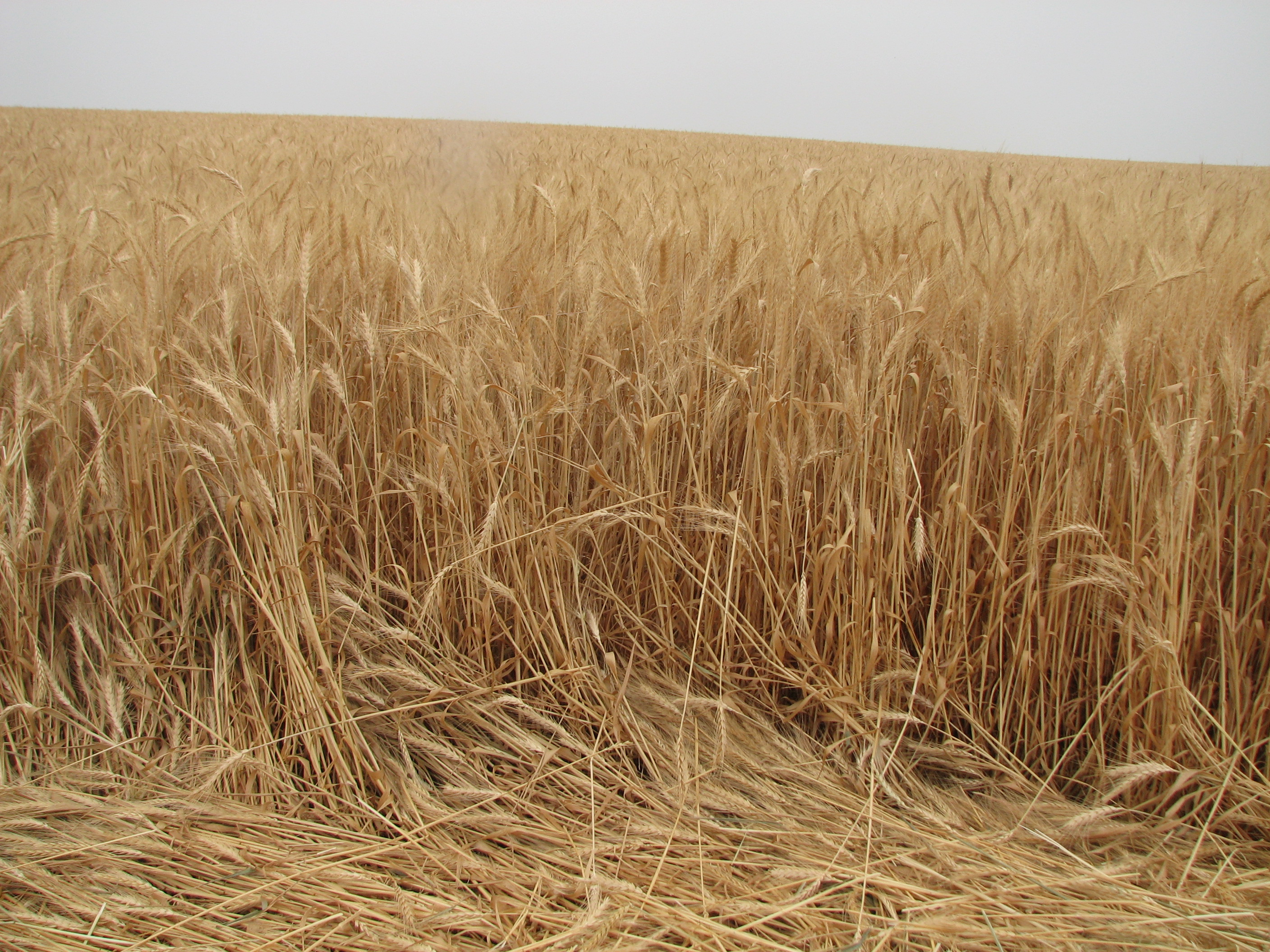 Agriculture in Israel